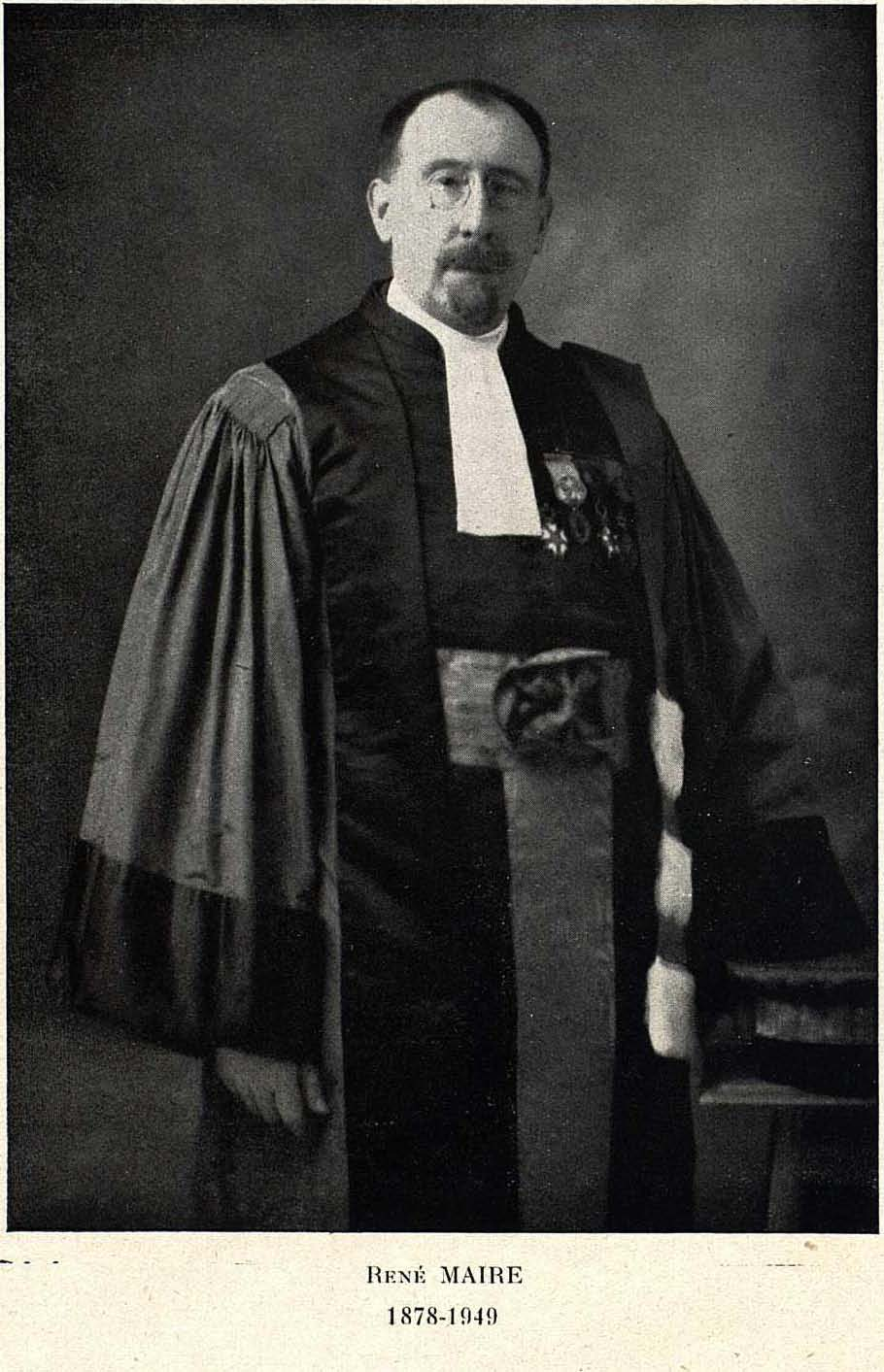 Portrait of Rene Maire, a French botanist (1878-1949)